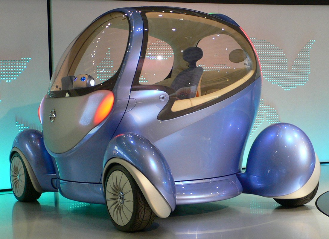 Nissan_Pivo2 photographed in Tokyo Motor Show 2007